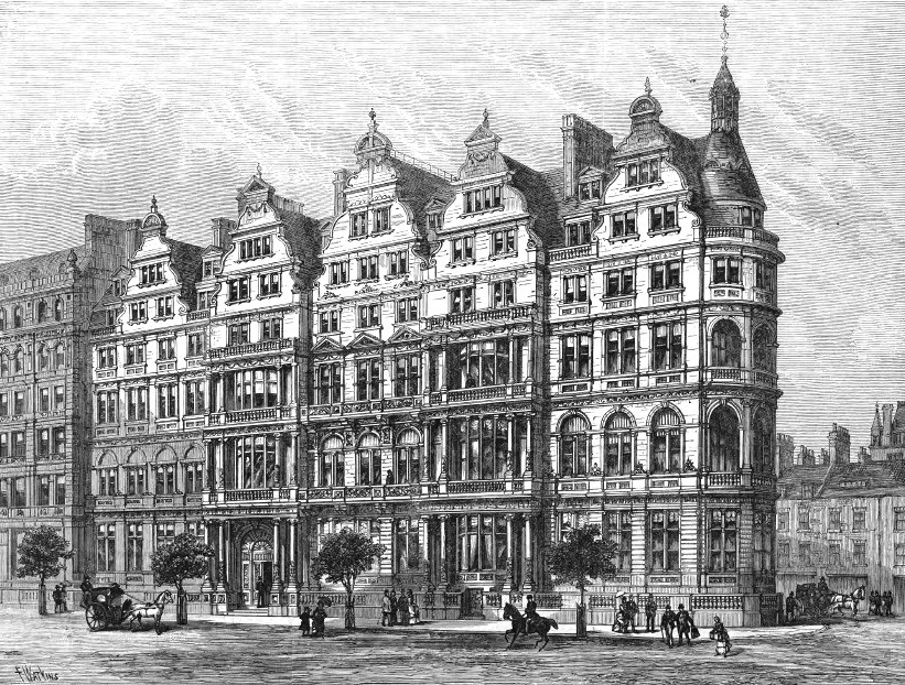 "The Constitutional Club, Northumberland-Avenue, Charing-Cross ; Architect, Mr. R. W. Edis, F.S.A.